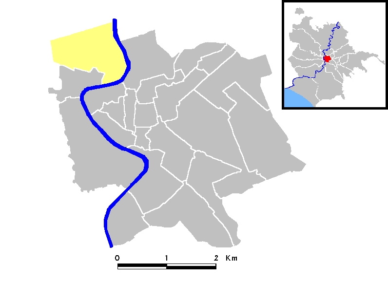 Locator maps of Rome (rioni)